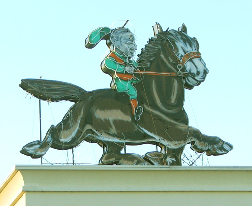 "Can't Stop", the symbol of Arthur Barnett Ltd.